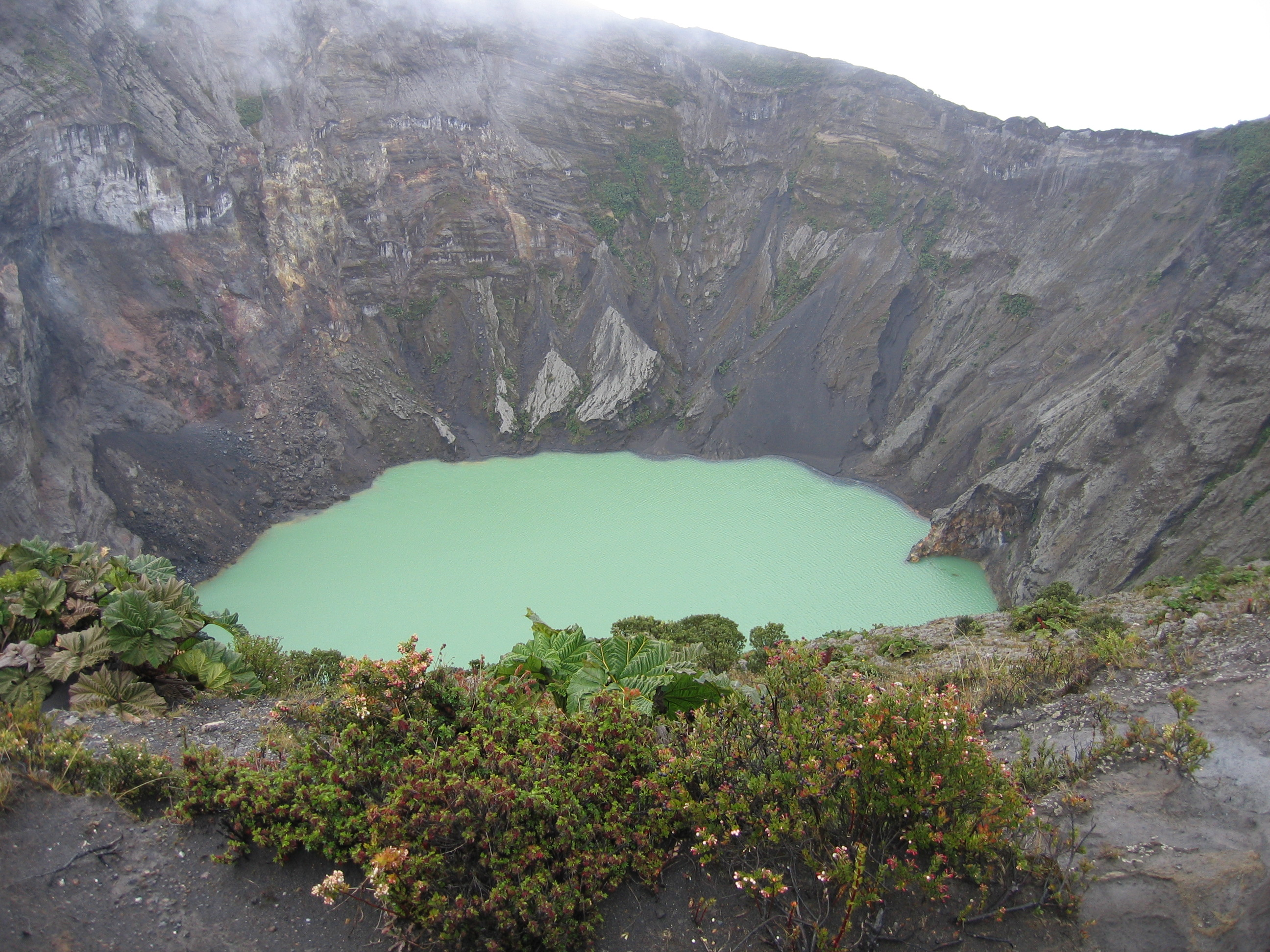 From the Volcano Irazú in Costa Rica Taken by Peter Andersen